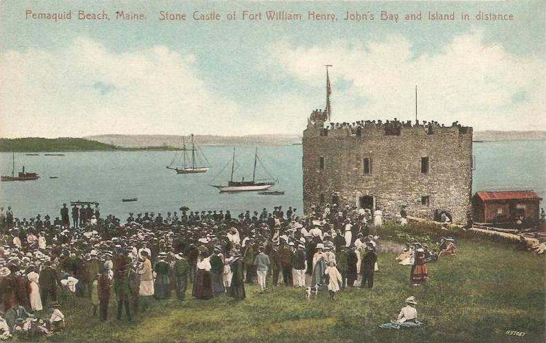 Stone castle of Fort William Henry, with John's Bay and Island in distance, Pemaquid Beach, Bristol, Maine. It was originally built in 1692 but destroyed during King William's War in 1696. The tower was reconstructed in 1908 using many original stones.